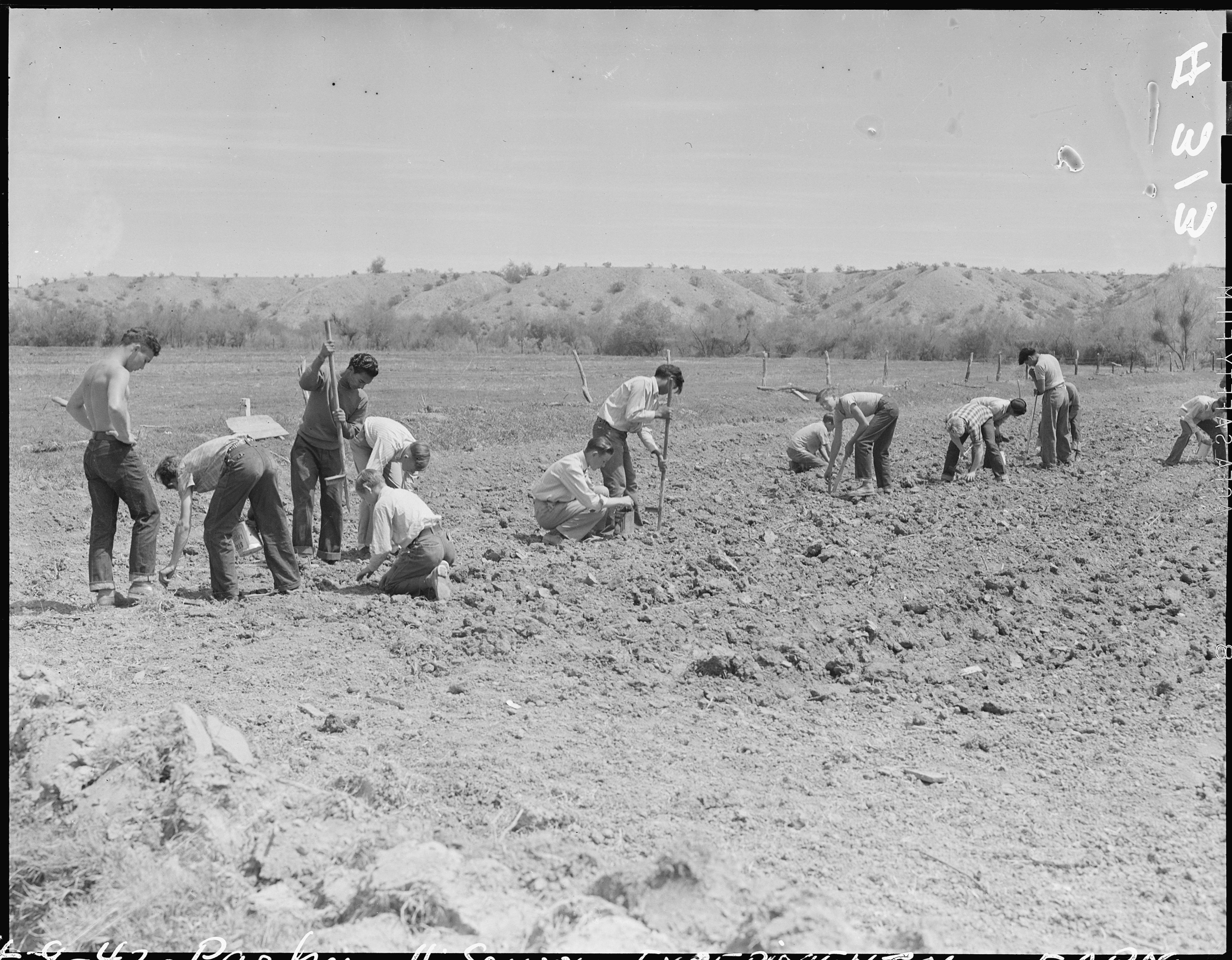 Scope and content: The full caption for this photograph reads: Parker, Arizona. Parker High School students start a test planting of guayule on the Colorado River Indian Reservation. The War Relocation Authority has established a center for evacuees of Japanese ancestry on the reservation.